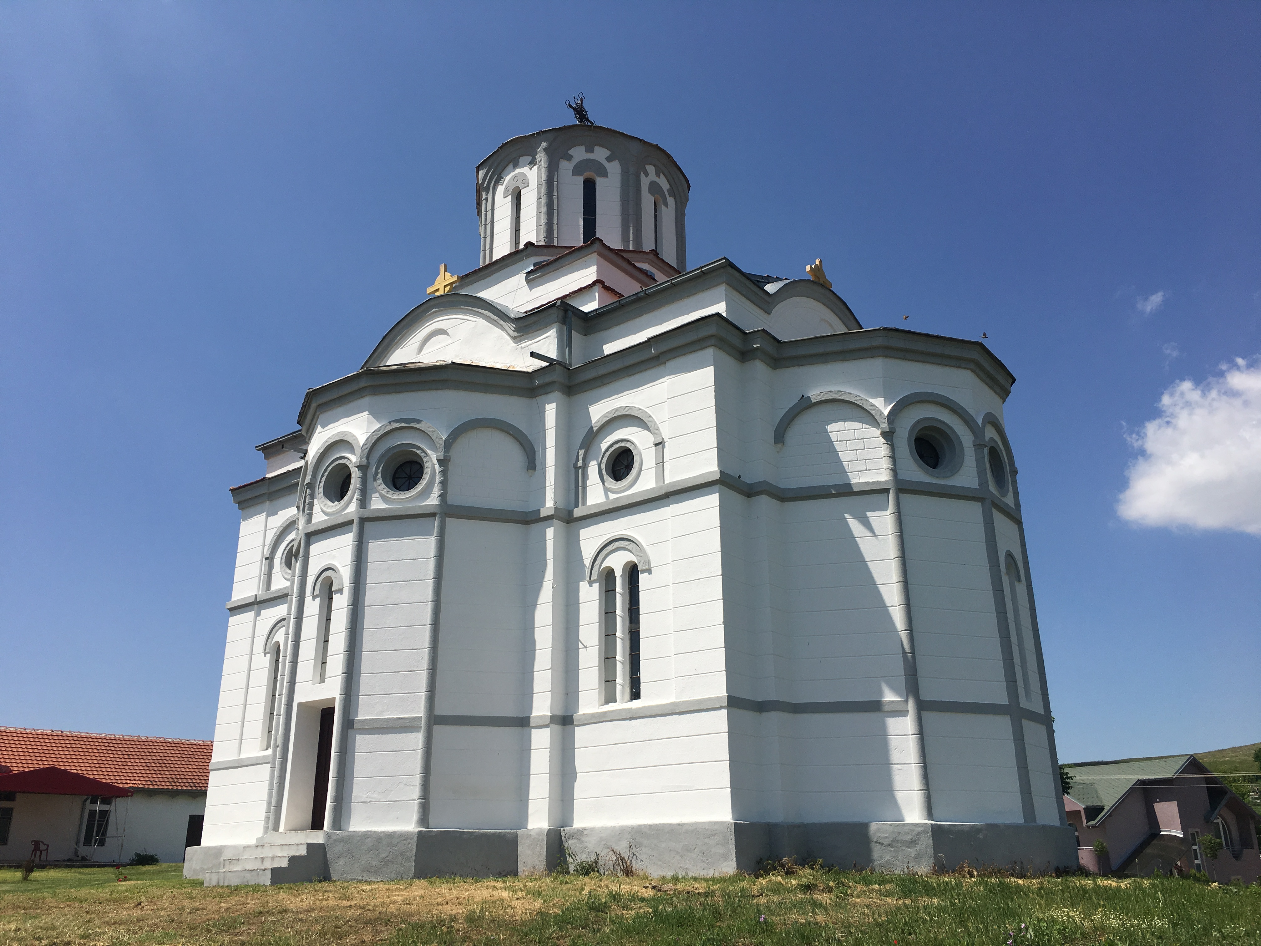 St. Theodore of Asamea Church in the village of Dolno Srpci